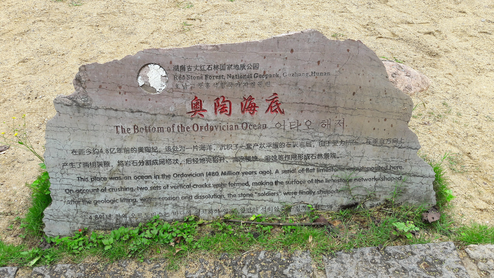 Pannel in Red Forest National Geopark, in Guzhang Xian, Hunan province, China.